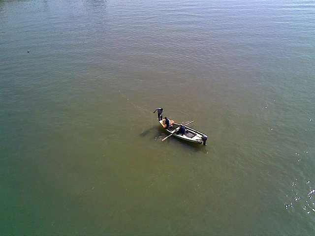 Boat on the Tigris at Baghdad